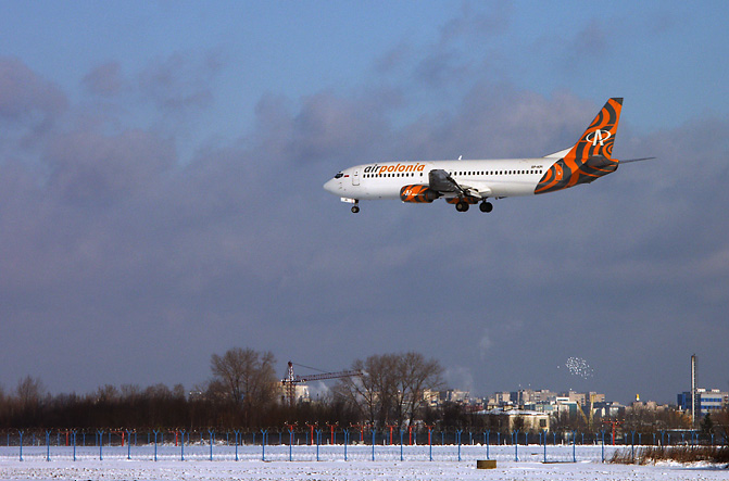 Boeing 737-4Q8 of Air Polonia airline landing on Warsaw Frederic Chopin Airport (EPWA). Author: Jakub Jozwiak